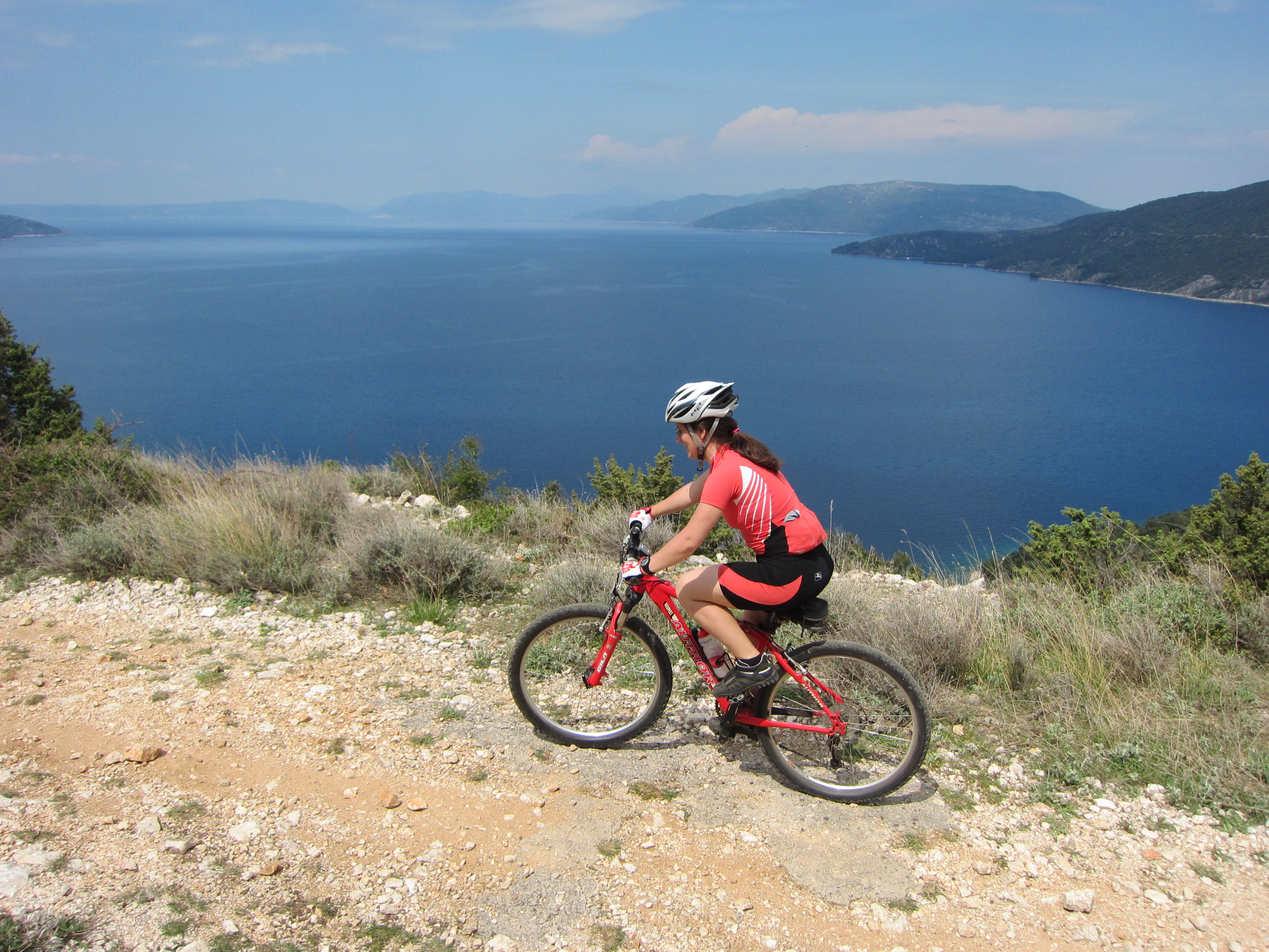 Cres-Valun by bike, Croatia.